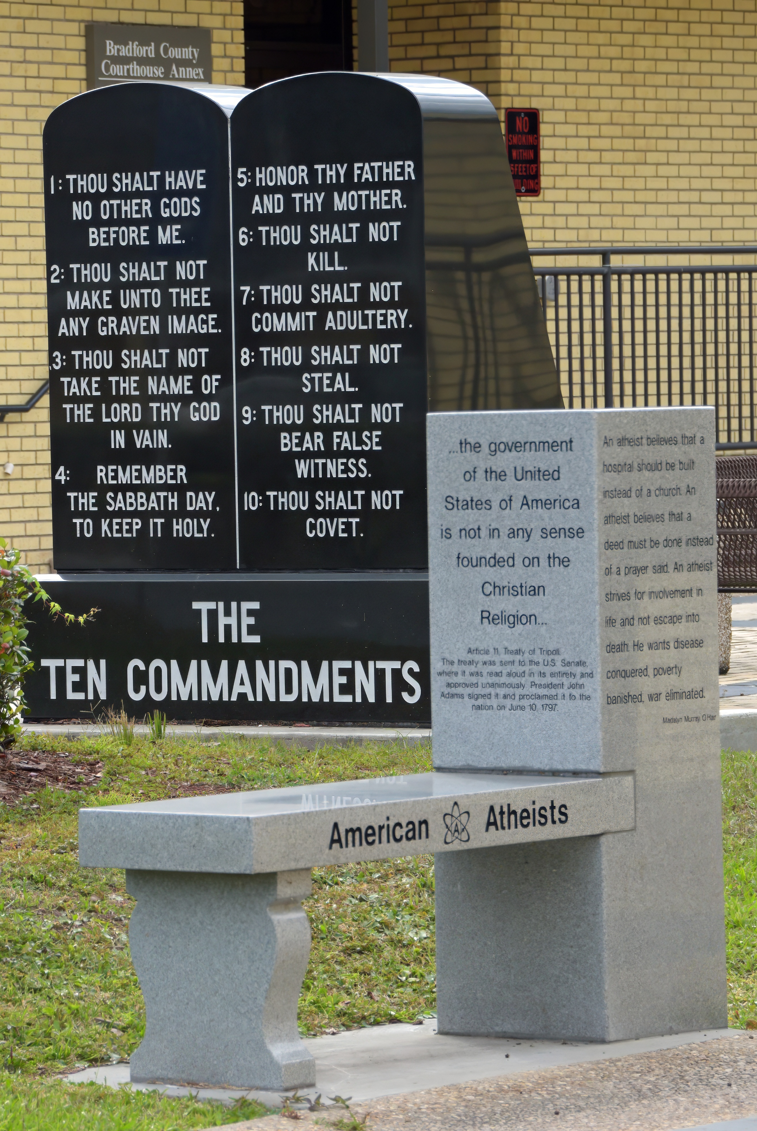 American Atheist bench and ten commandments display at the Branford County, Florida courthouse in Starke, FL